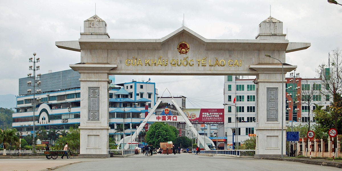 Border crossing between Vietnam and China, view from Lào Cai to Hékǒu, seen from the Vietnamese side.